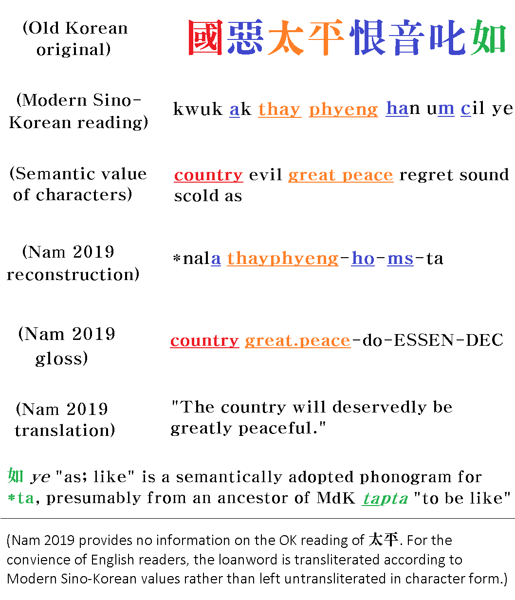 This is an orthographic analysis of the final line of the 765 Old Korean poem Anminga: "國惡太平恨音叱如." The reconstruction, glosses, and translation are based on Nam, Pung-hyun (February 2019). "안민가(安民歌)의 새로운 해독 (A New Interpretation of the Anminga)". Kugyŏl Studies 42: 33-49. Red represents semantically-adapted logograms (hundokja); blue, phonetically-adapted phonograms (eumgaja); orange, directly-adapted logograms (eumdokja); green, semantically-adapted phonograms (hungaja).